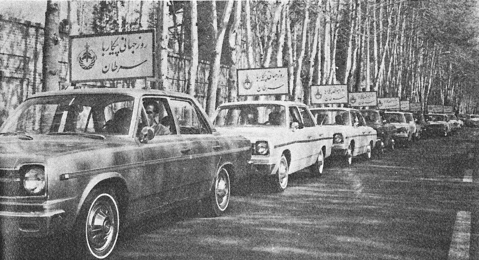 International day of fight against cancer, 1970, Tehran, Iran. The cars are Aria/Shahin, license built Ramblers by Sherkate Sahami Jeep.